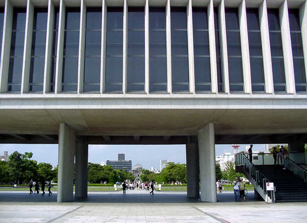 Hiroshima Peace Museum